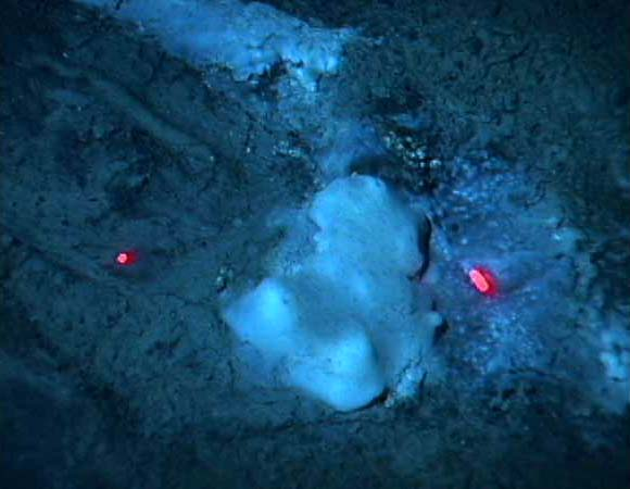 Beggiatoa spp. bacterial mat at a seep on Blake Ridge, off South Carolina. The red dots are range-finding laser beams. Photographed from the DSRV Alvin.Image from NOAA Ocean Explorer.